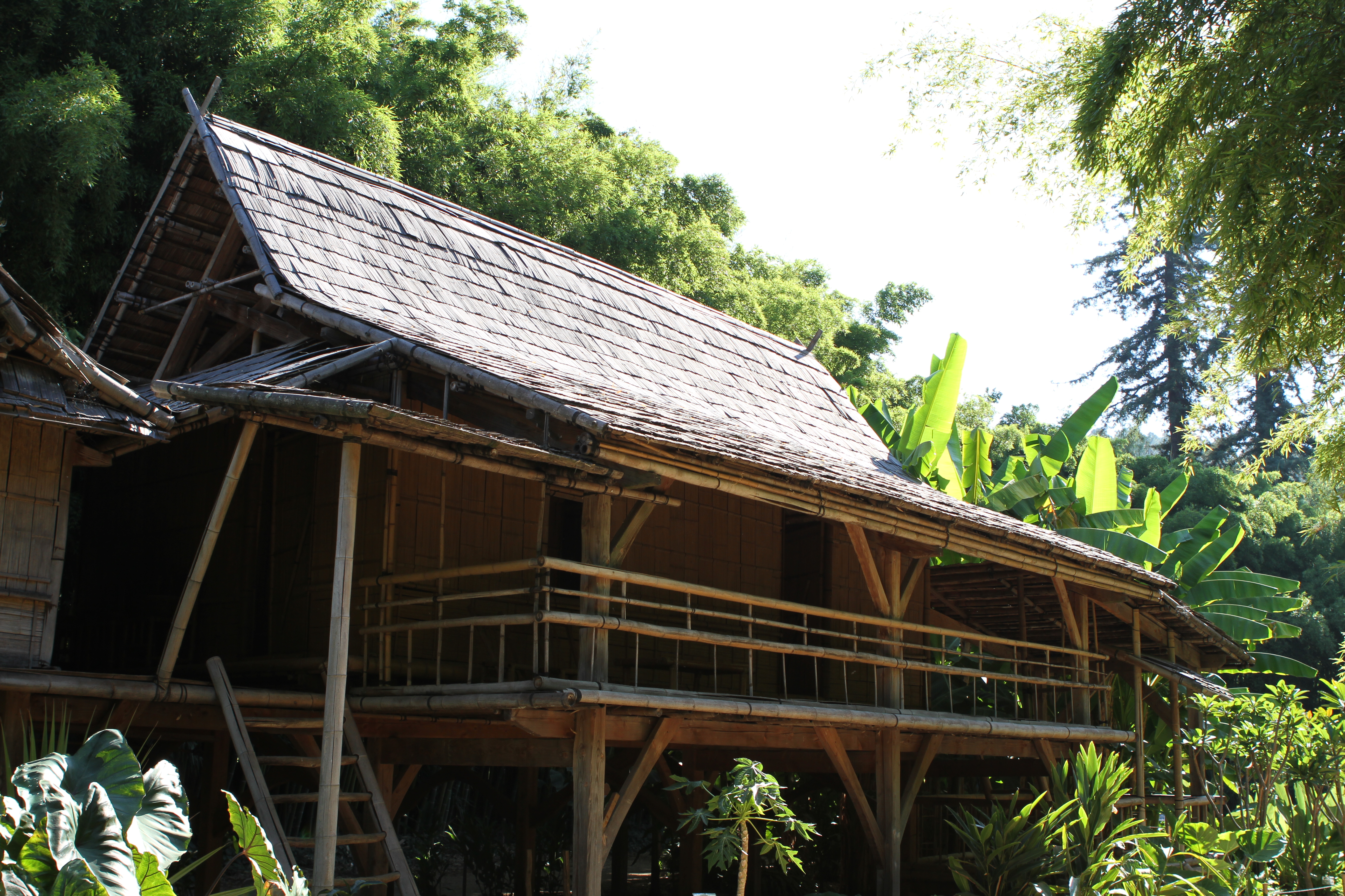 Bambouseraie de Prafrance (Gard, France)